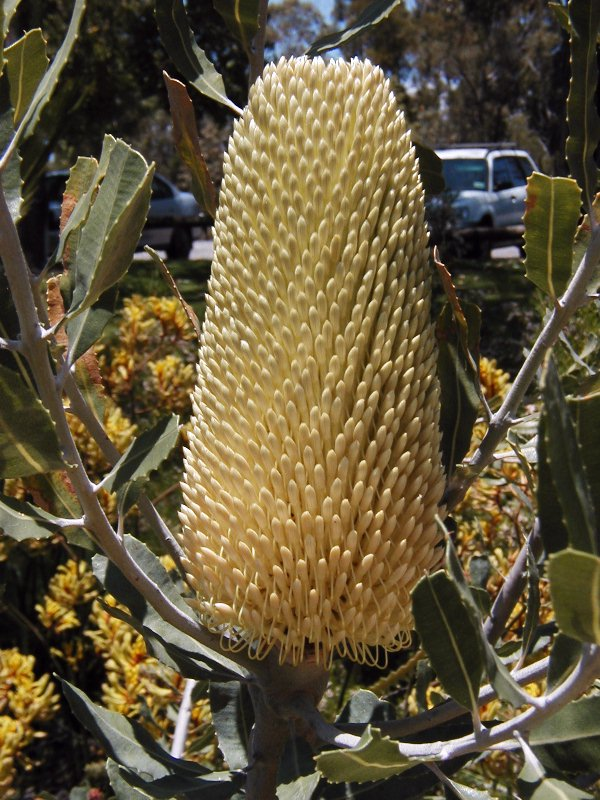 Banksia sceptrum in flower, Kings Park Dec 2004 Photo Cas Liber